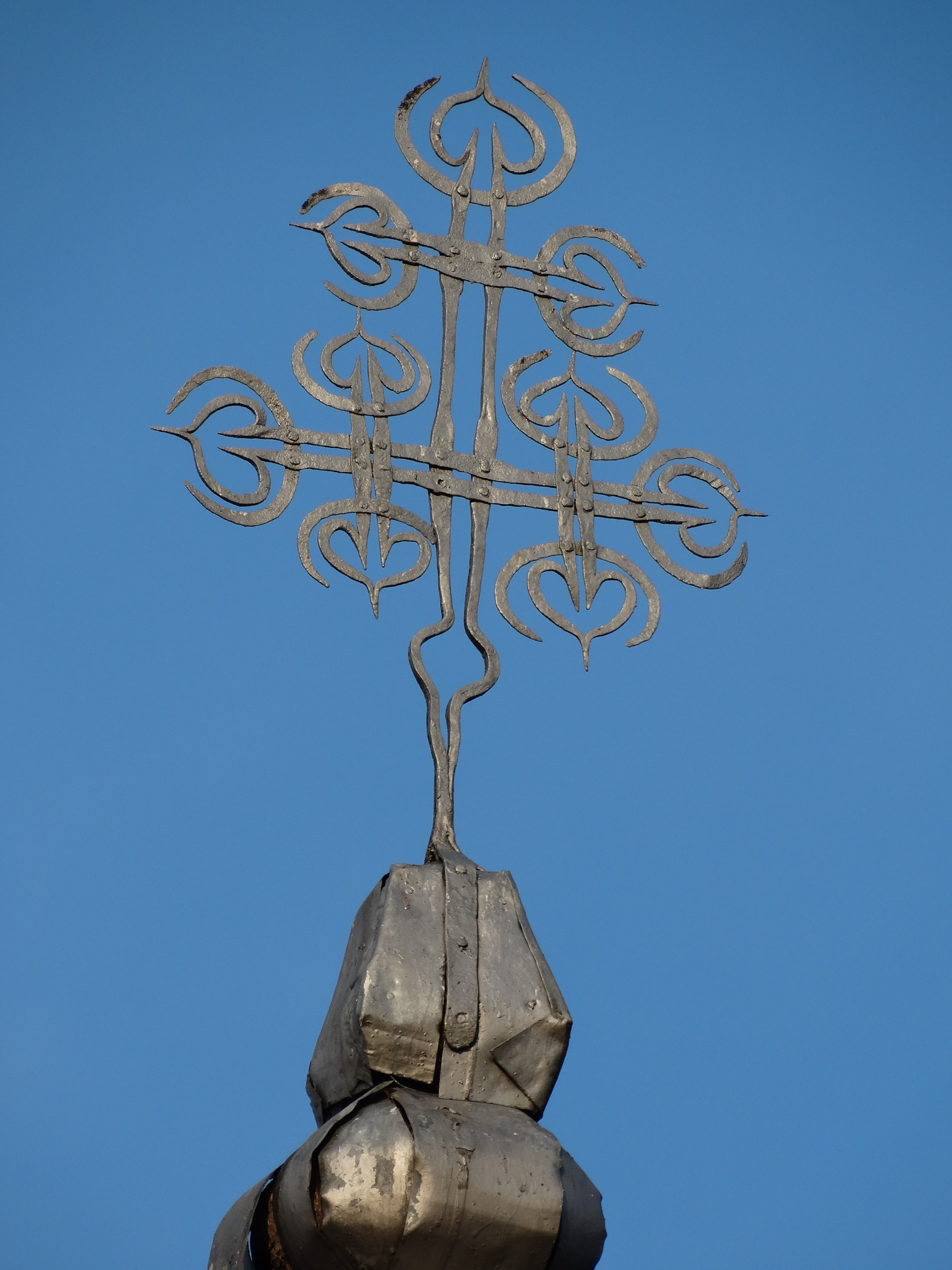 Chapel cross in Deikiškiai, Biržai district, Lithuania